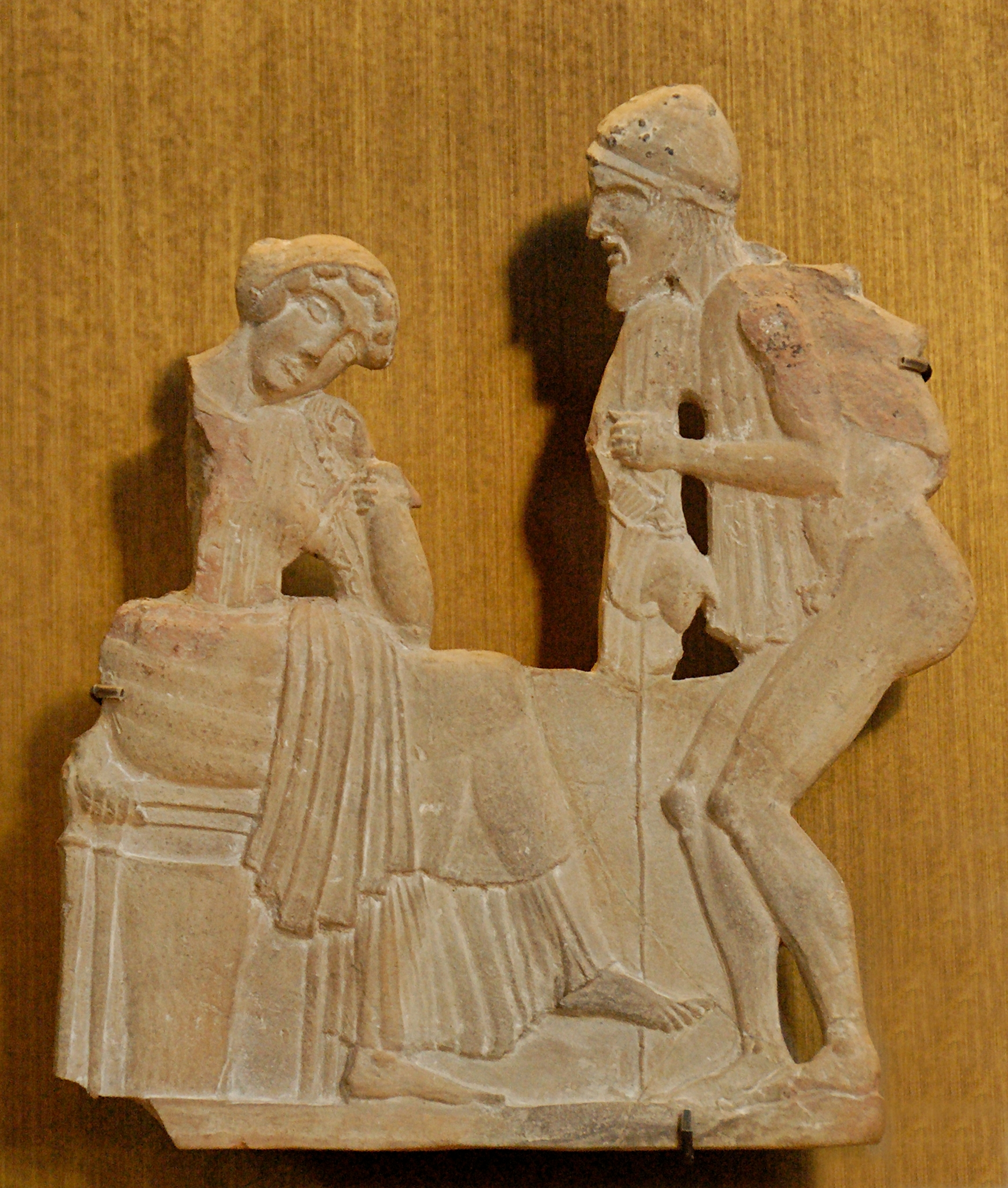 Odysseus, in the guise of a beggar, tries to be recognized by Penelope. Terracotta relief, ca. 450 BC. From Milo.